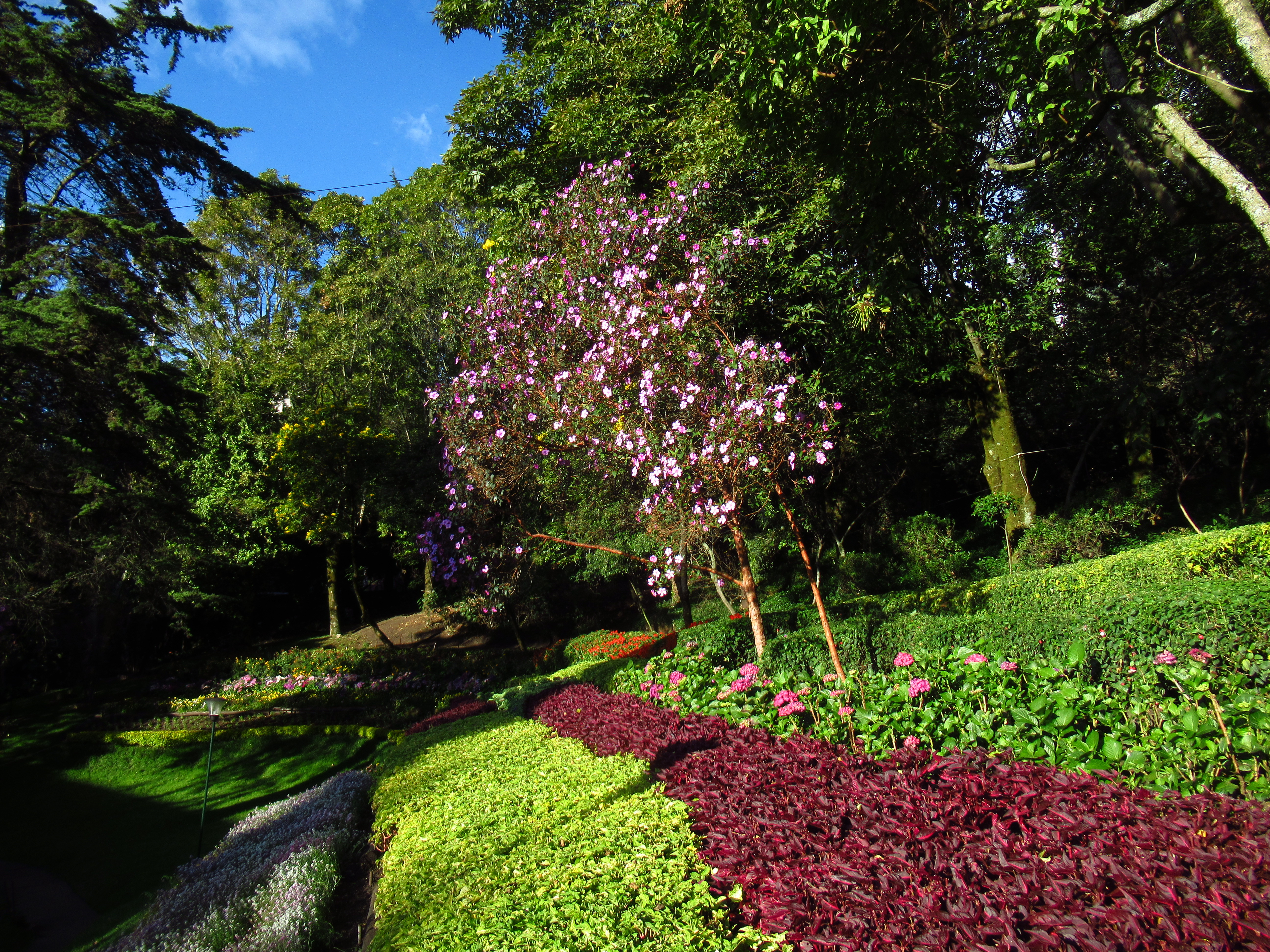 Bogotá